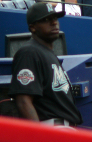 I took this photo on June 5, 2007 04:55, 8 June 2007 . . Chrisjnelson . . 185×284 (77,629 bytes)